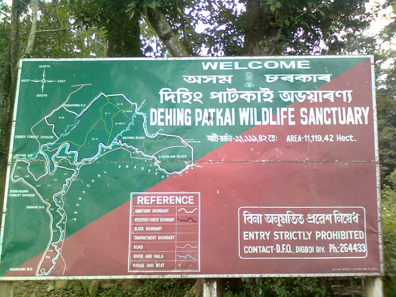 A signboard showing the directions in Dihing Patkai Wildlife Sanctuary.